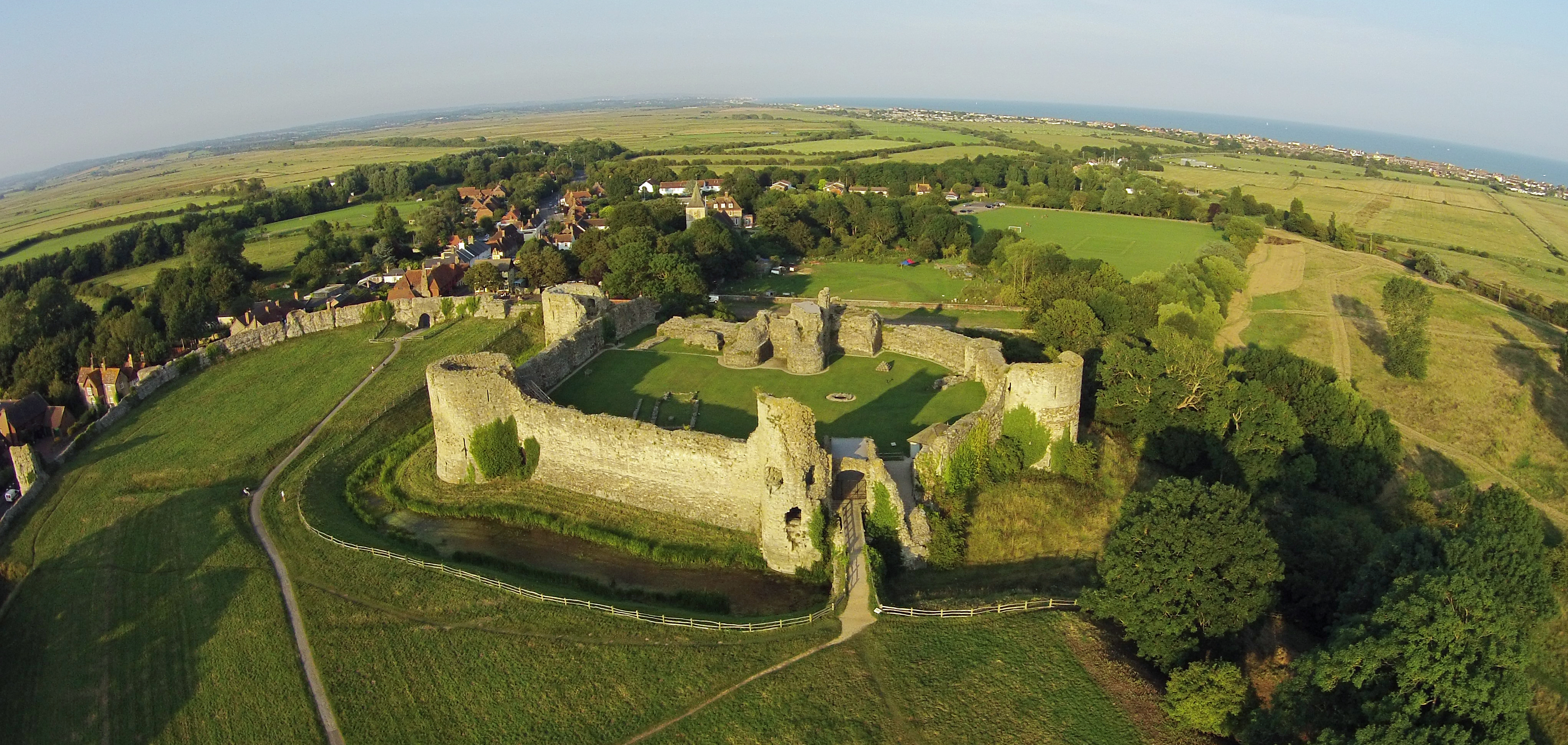 Taken using DJI Quadcopter Phantom Vision Plus